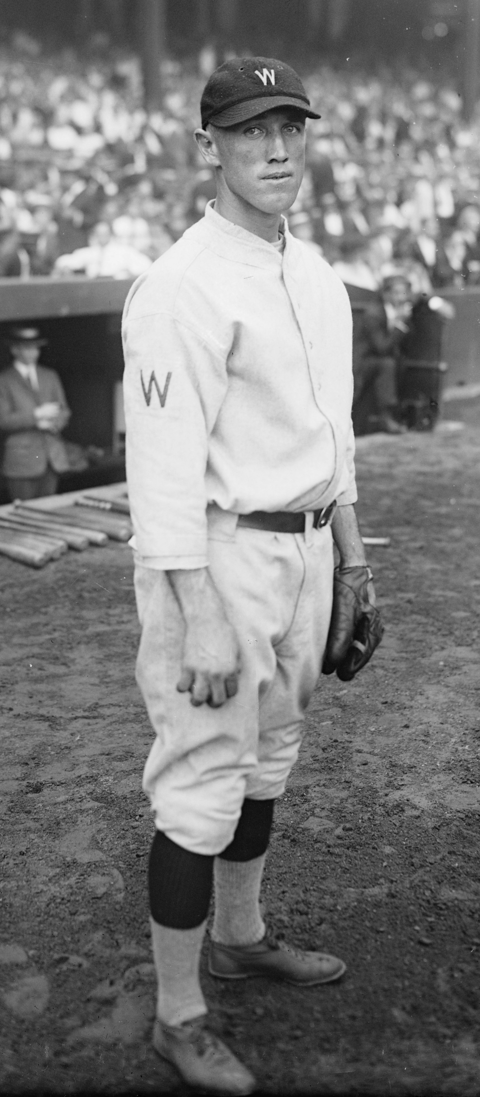 Title: Earl McNeely, Washington AL (baseball) Abstract/medium: 1 negative : glass ; 5 x 7 in. or smaller.